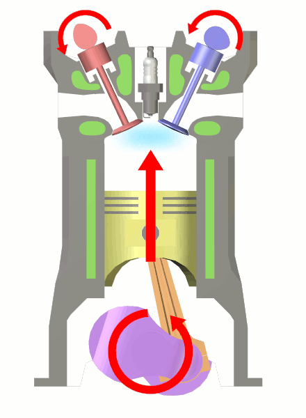 Illustration of the Four-stroke cycle